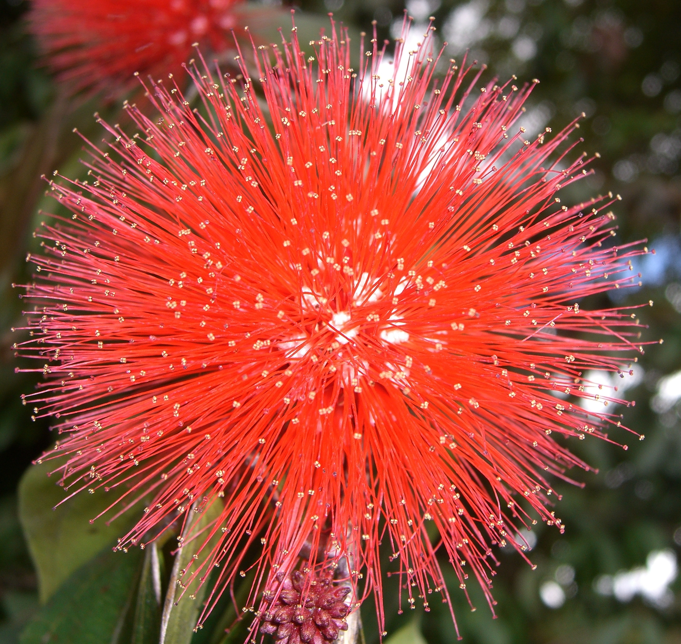 Please report references to .